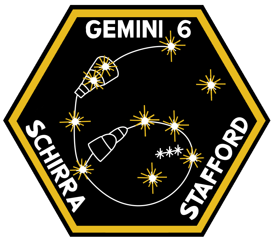 Color scan of an original Gemini 6A patch, revised from the Gemini 6 patch, which had "GTA-6" at the top rather than "GEMINI 6."